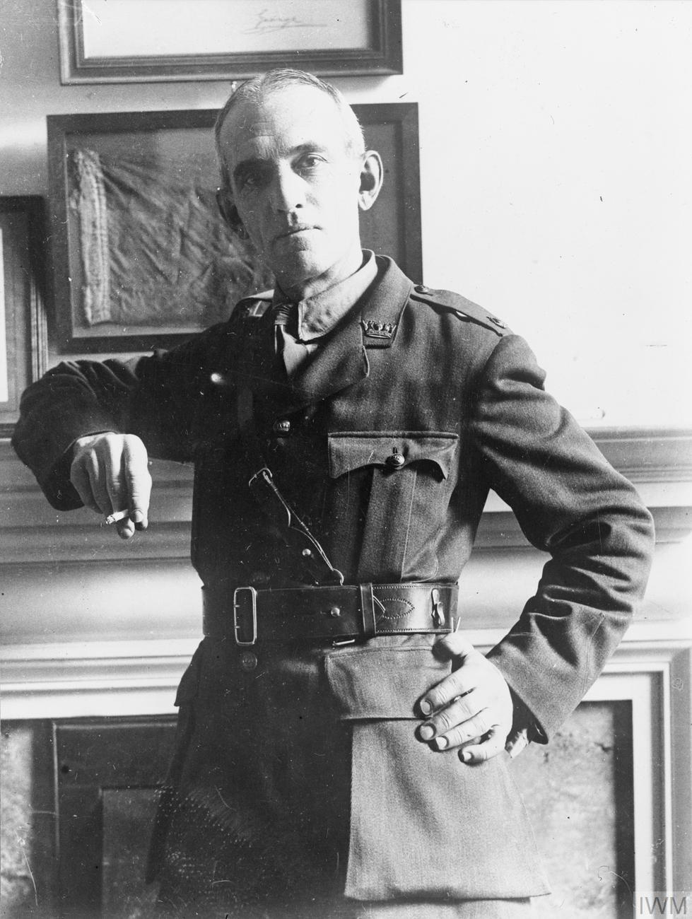 The History of the Imperial War Museum, 1917-1918 Major Charles ffoulkes the first Curator and Secretary of the Imperial War Museum.